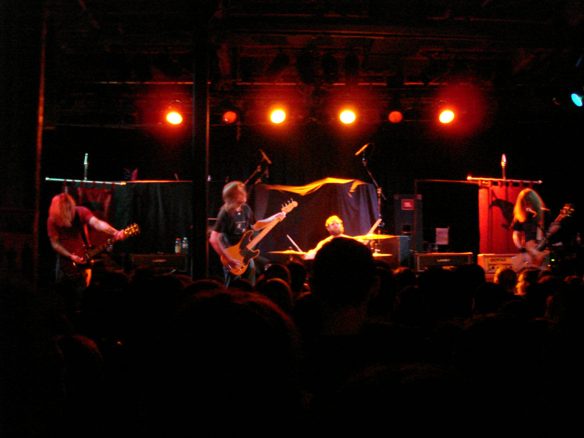 American heavy metal band The Sword performing live at Slim's in San Francisco on February 25, 2006.